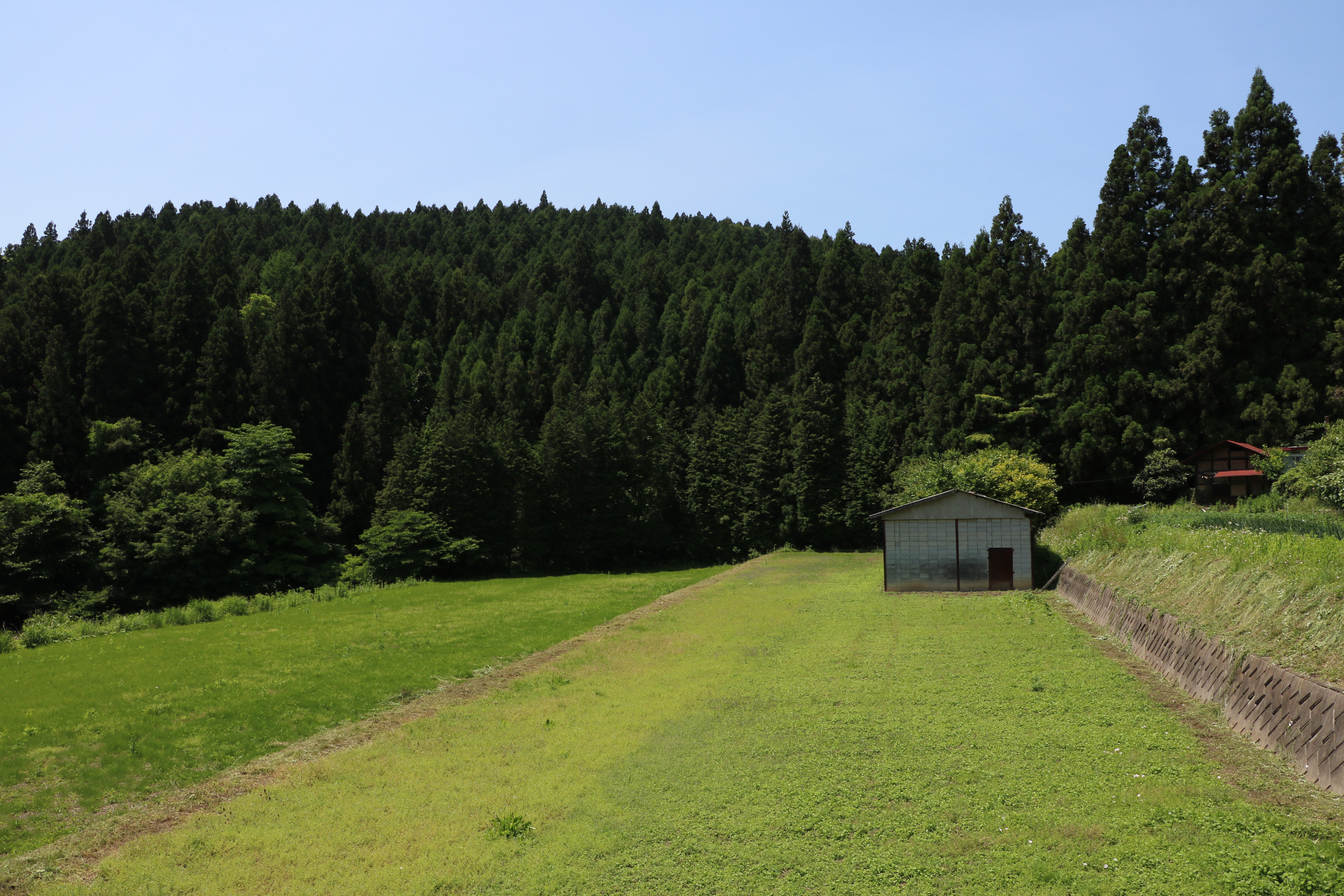 Trace of construction work for Onogami-Kita district inclined shaft construction